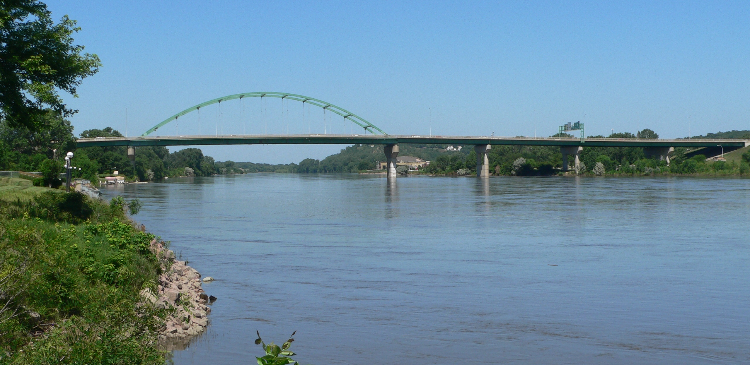 Siouxland Veterans Memorial Bridge, carrying U.S. Highway 77 across the Missouri River from South Sioux City, Nebraska to Sioux City, Iowa. The photo was taken from the Nebraska side, facing upstream.